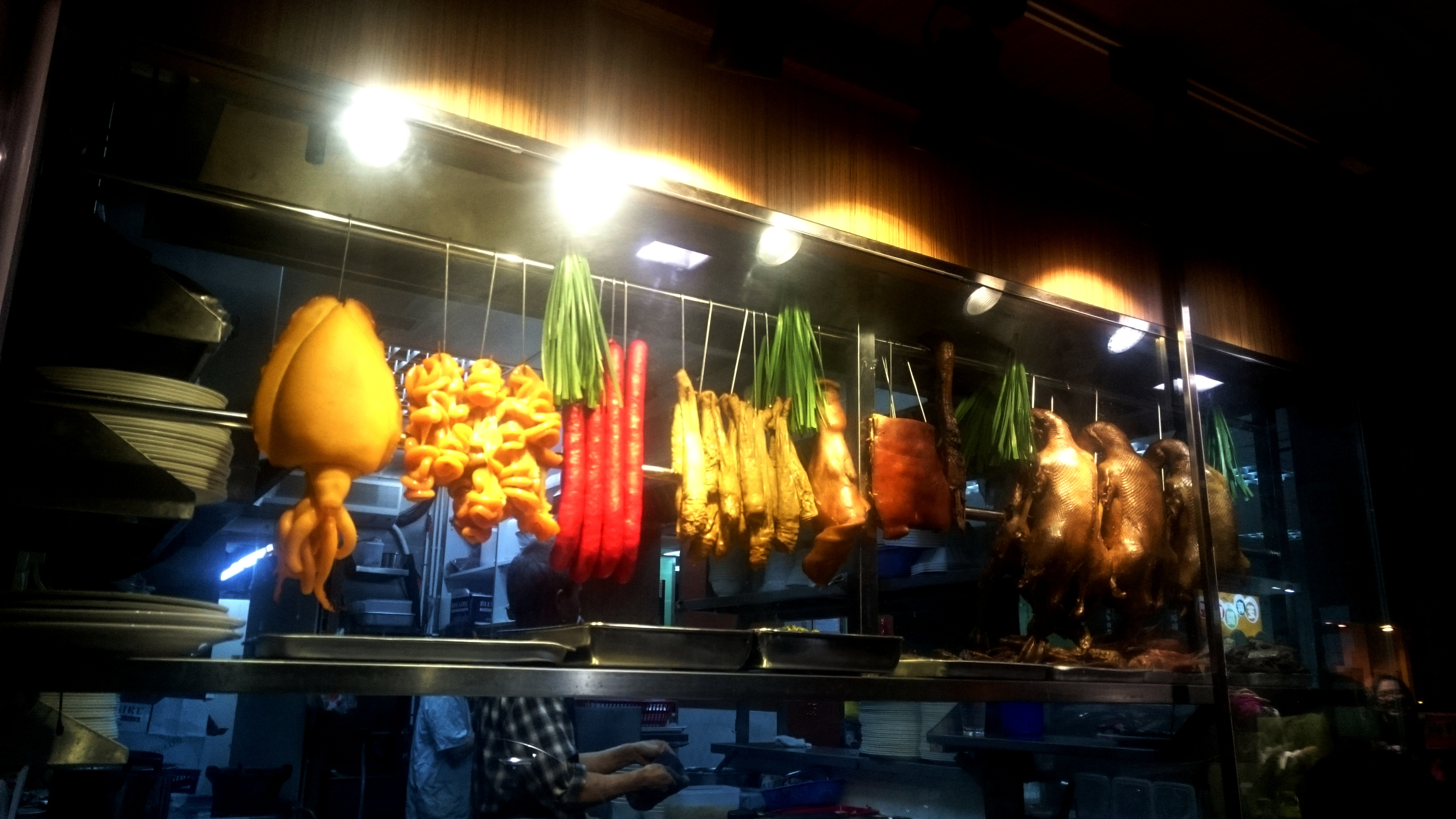 there is usually a counter put up all the marinated food for the chef to chop when customers need to takeaway.